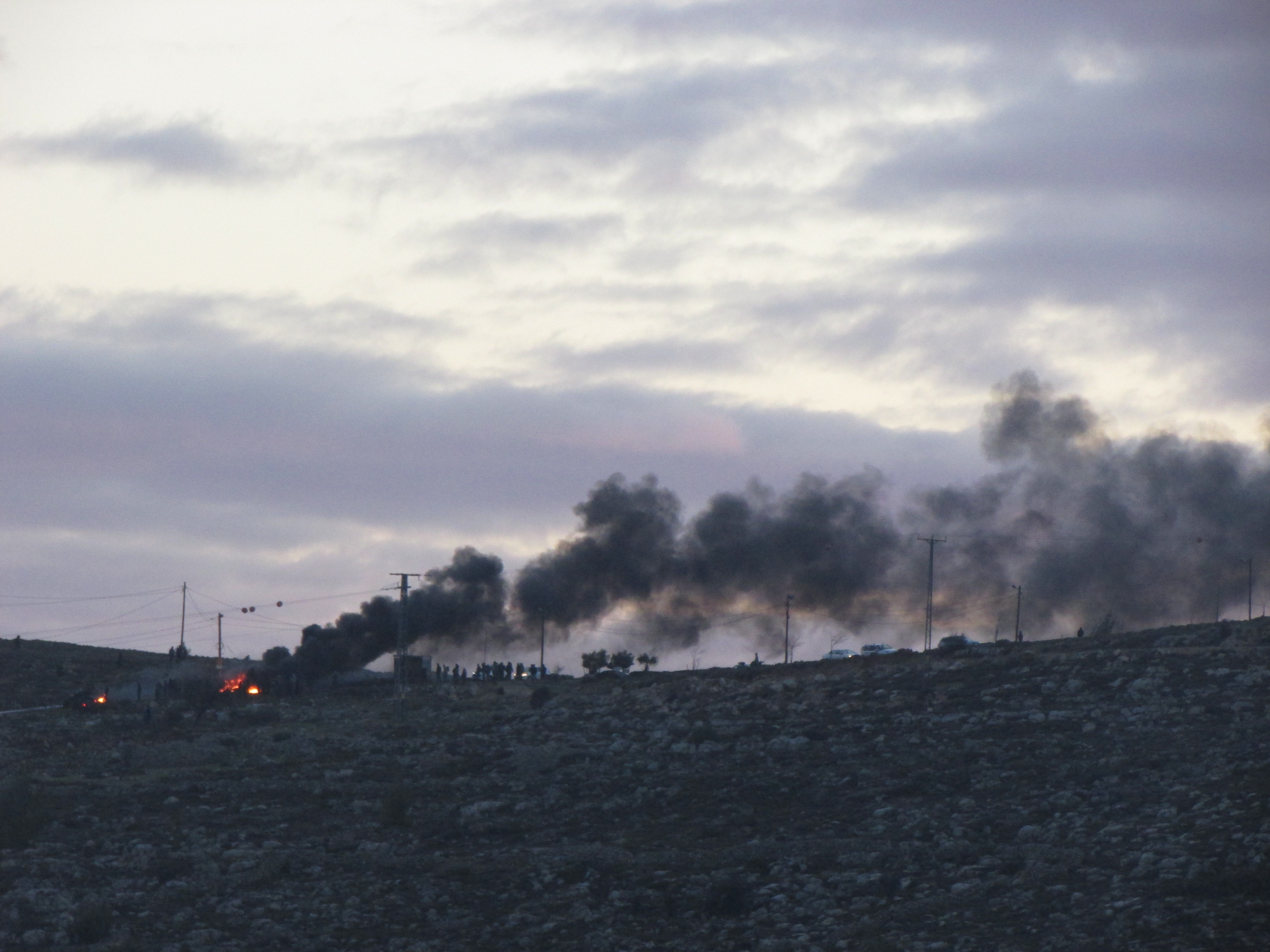 Evacuation of Amona. protests againsts the evacuation.